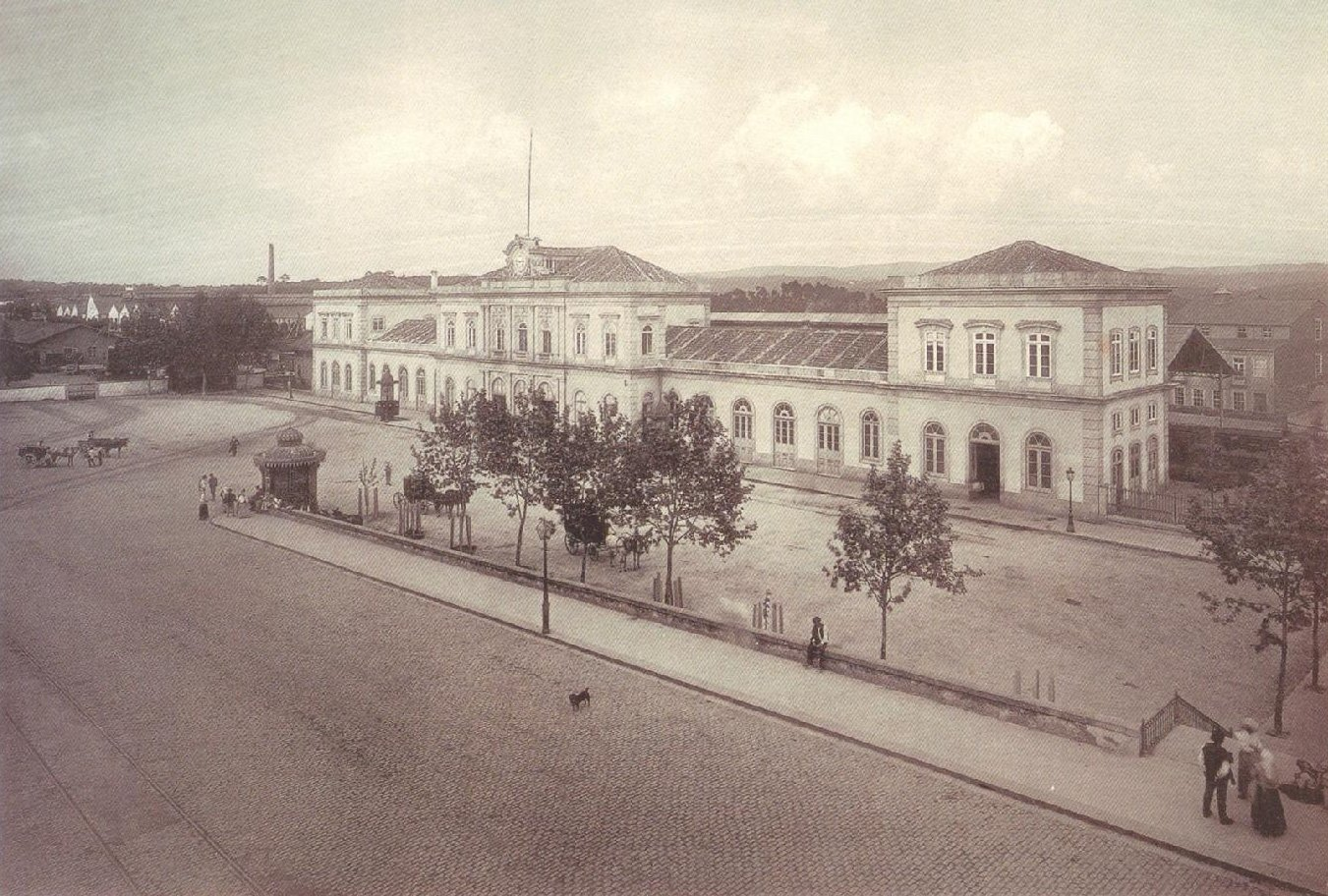 Porto-Campanhã Train Station, the main railway station in the city of Oporto, in Portugal. Note the rail lines in the street, for the public horsecar service, that ended in 1904.